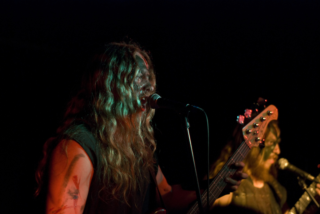 Licensed under Creative Commons Attribution-Share Alike. Feel free to use it anywhere but put a link to my website or Flickr page.